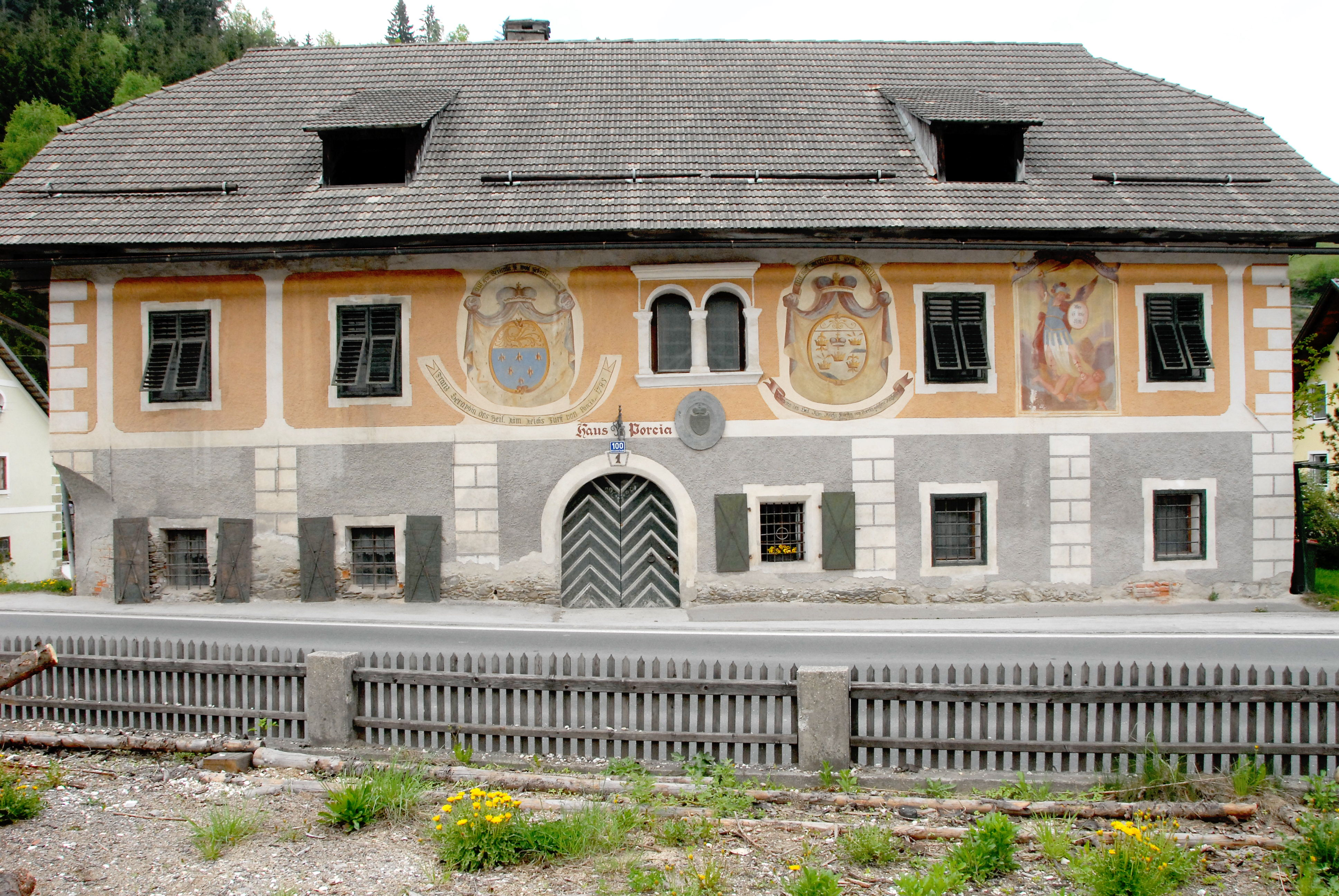 Former folwark and manor house of the counts of Porcia in Gassen, municipality Afritz, district Villach Land, Carinthia, Austria, EU